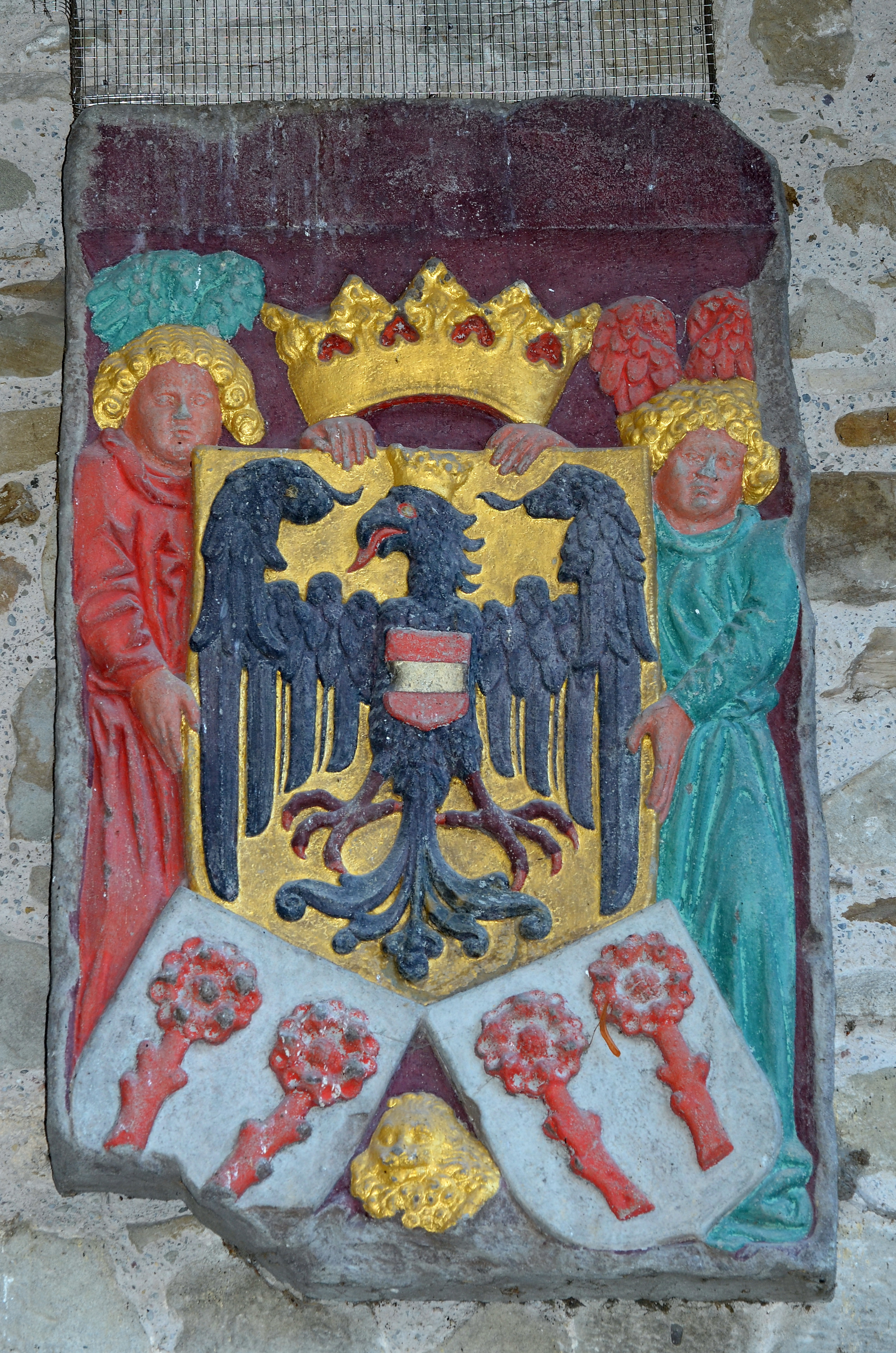 Schloss (castle) in Rapperswil